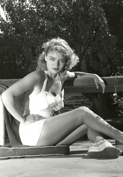 Linda Douglas by Ernest Bacharach, c. 1952